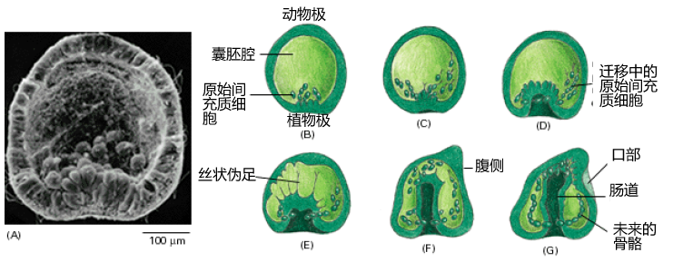 Sea_Urchin_Gastrulation. The Cell migration in the course of Gastrulation. Chinese translation by dgg32